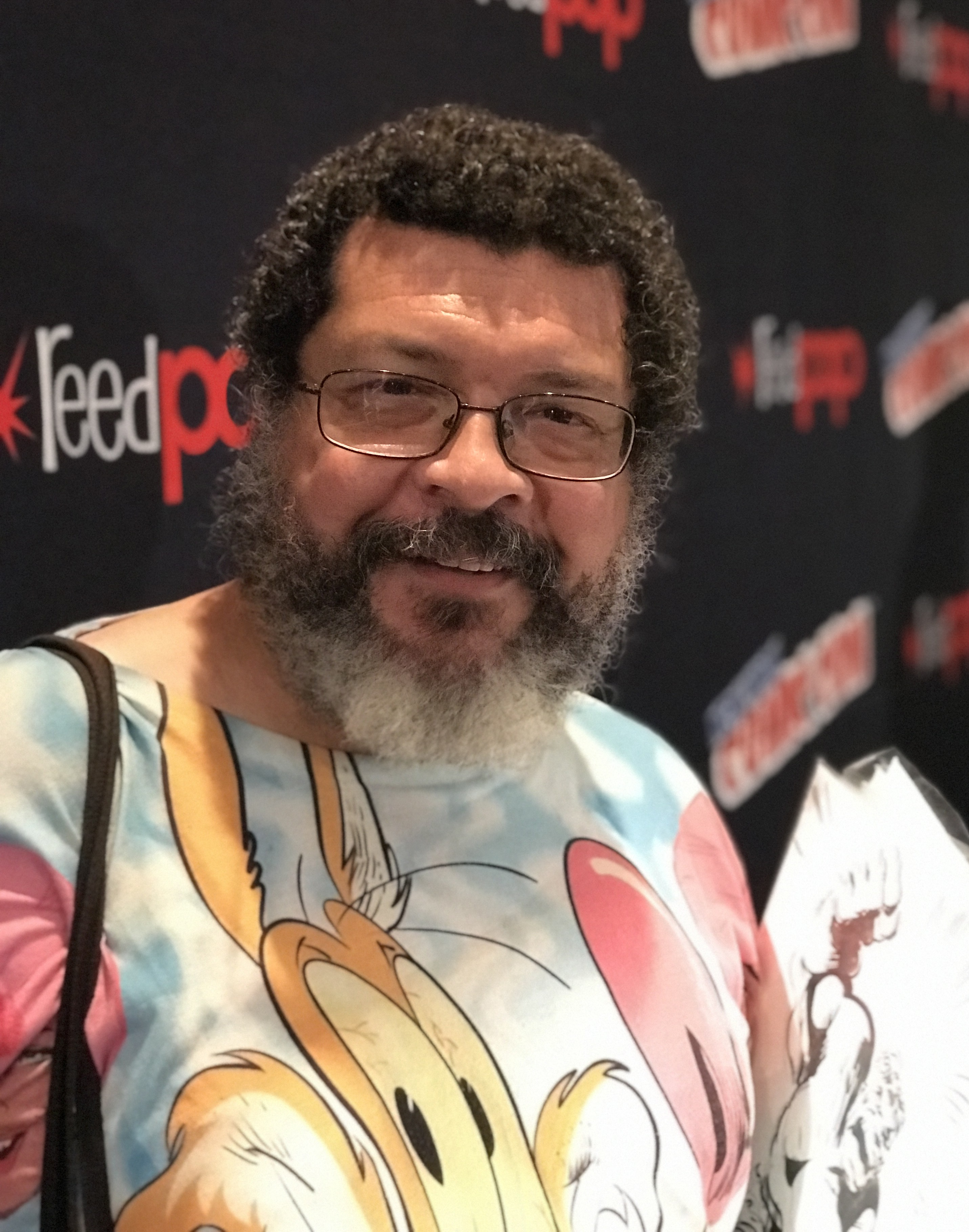 Comics artist Kyle Baker at "The Return of the Dakota Universe" panel discussion on Thursday, October 5, 2017 at the Jacob K. Javits Convention Center in Manhattan, Day 1 of the 2017 New York Comic Con. This photo was created by Luigi Novi. It is not in the public domain, and use of this file outside of the licensing terms is a copyright violation.